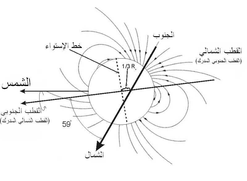 This image depicts the magnetic field of Uranus as seen by Voyager 2 in 1986. The image of dipole from Wikimedia Commons was used. This picture was created for Uranus article.